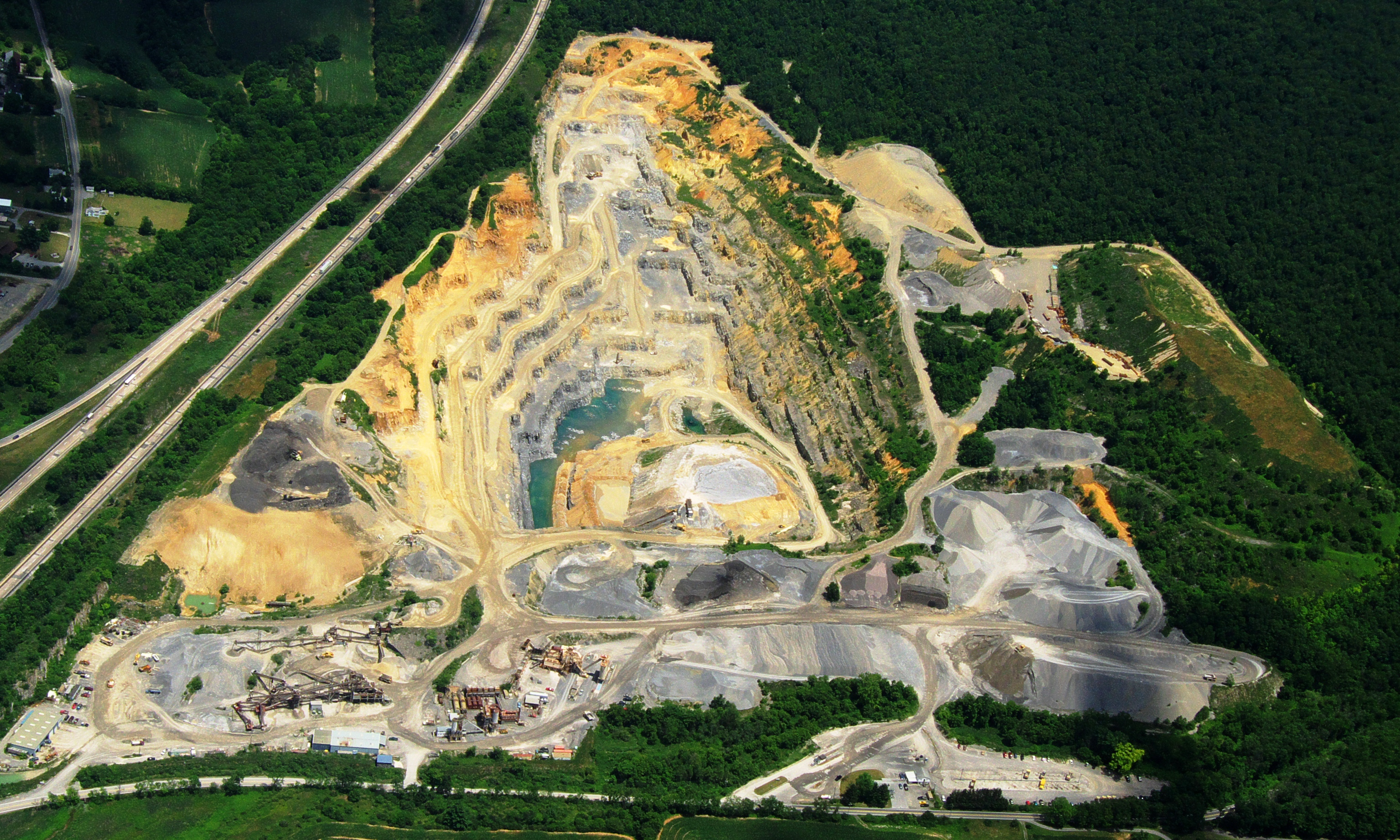 The Hanson Aggregates crushed stone limestone quarry at 1394 Forest Ave, Bellefonte, Pennsylvania, USA. This aerial photo taken from a glider on July 1, 2007 by me.